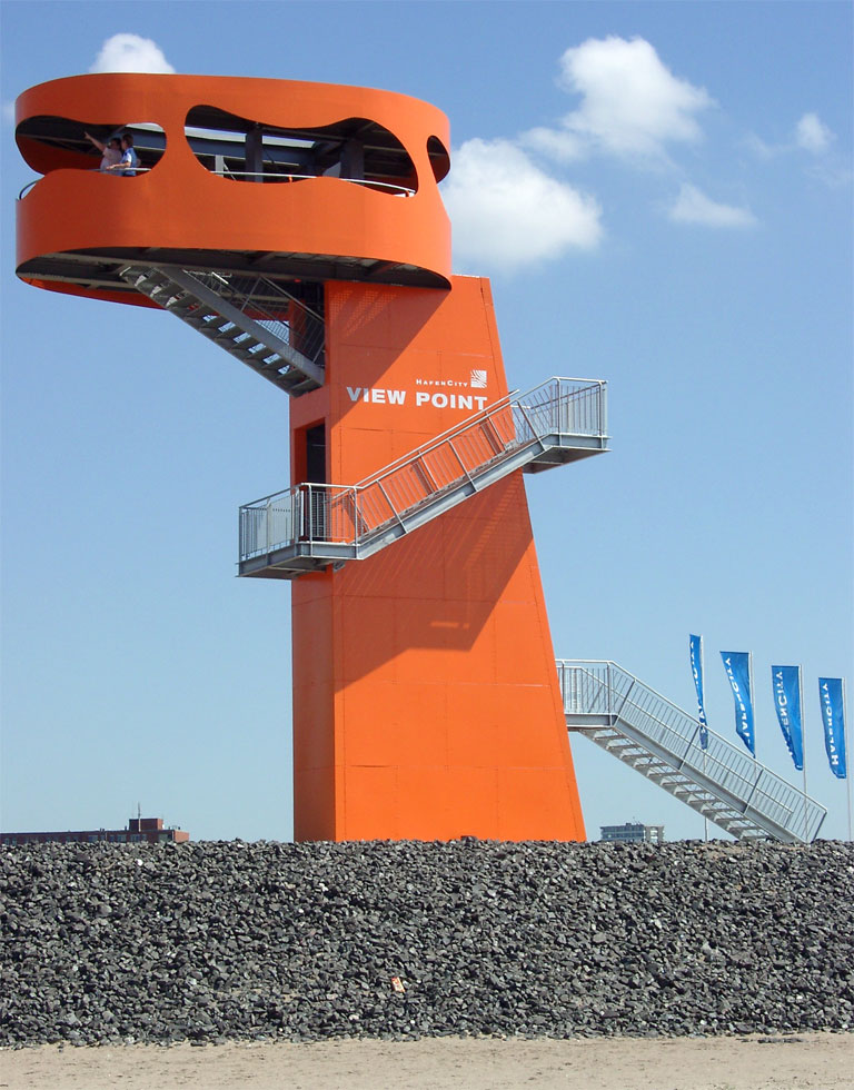 Lookout tower HafenCity Hamburg.